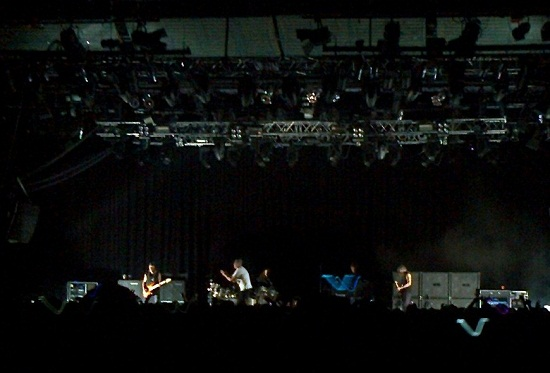 Deep Purple, Auditorium Angel Bustelo, Mendoza, Argentina 2011